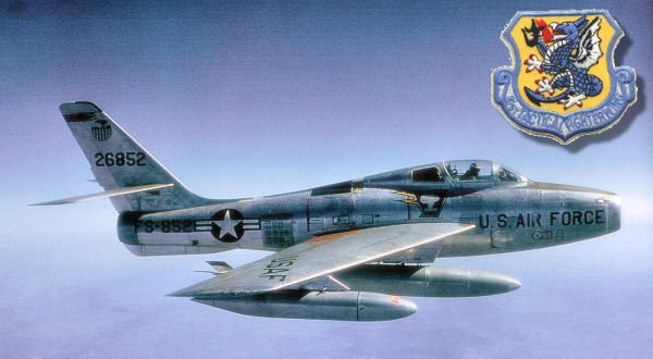 Republic F-84F-50-RE Thunderstreak, Serial 52-6852 of the 91st Figher-Bomber Squadron, RAF Bentwaters, England. (81st Tactical Fighter Wing emblem overlaid on photo by author)